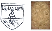 Coat of Arms of Usimbardi, tuscan family from Colle Val d'Elsa (Siena)